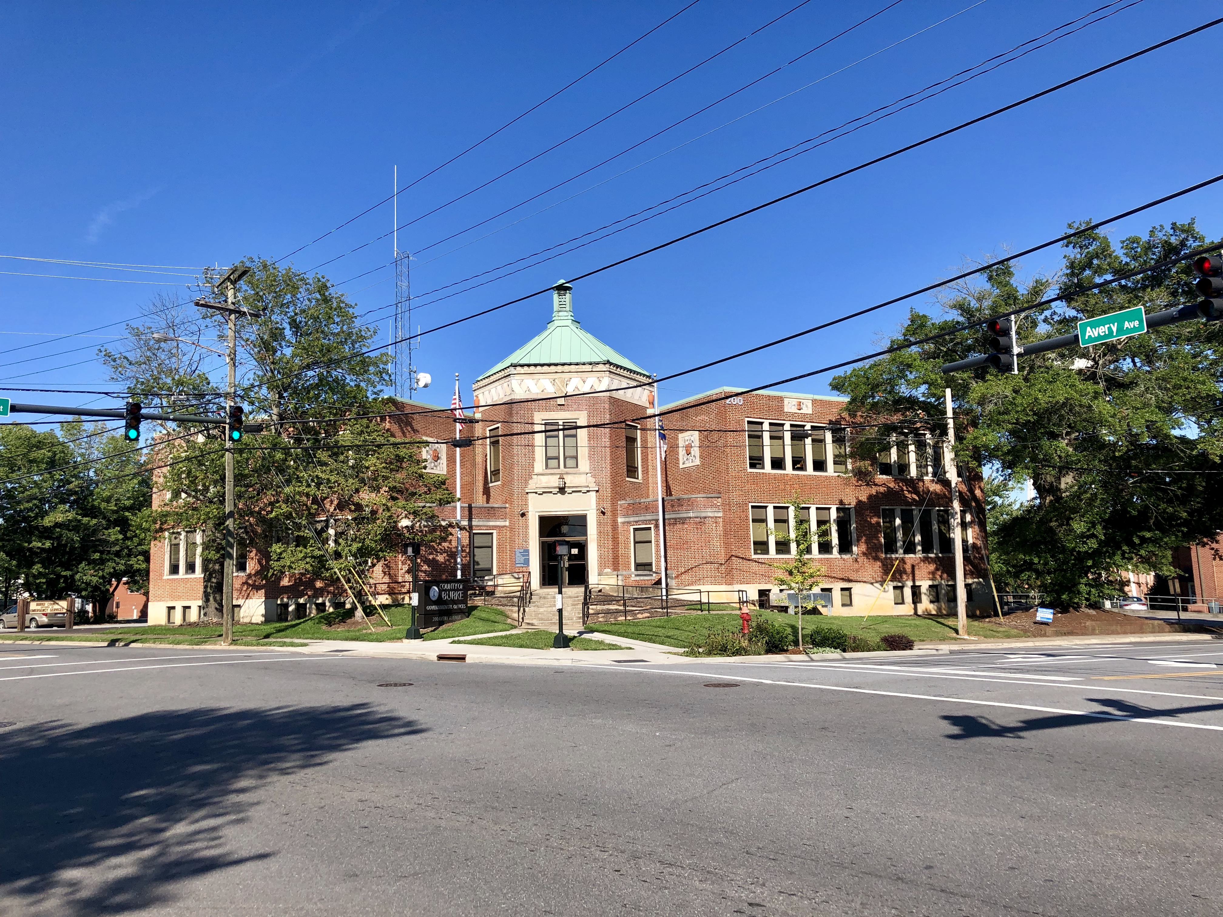 This is the former Avery Avenue School, constructed on Avery Avenue in Morganton, North Carolina in 1923. The building was listed on the National Register of Historic Places in 1987.